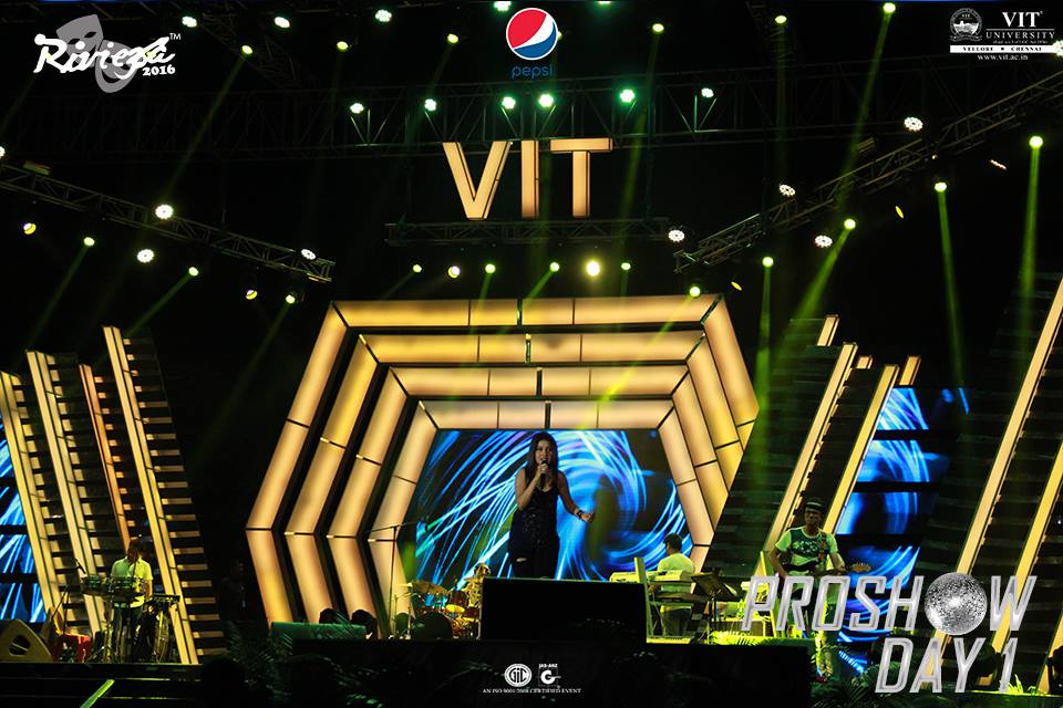 sunidhi